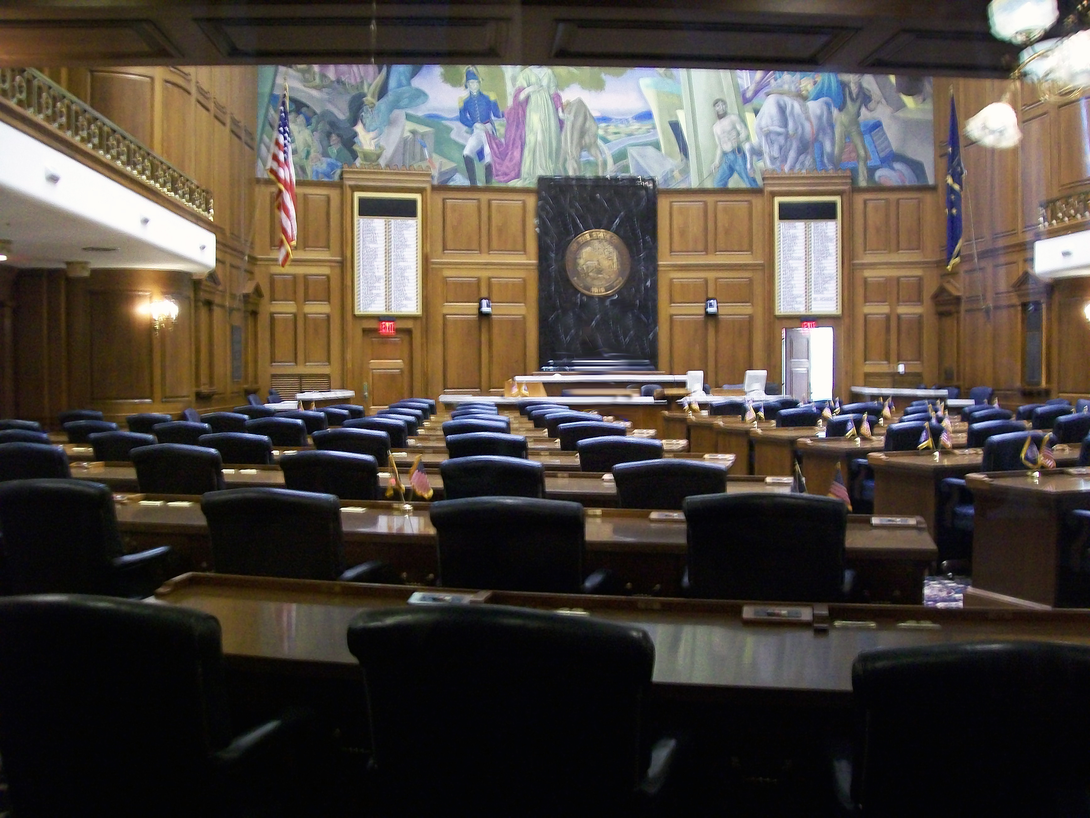 Indiana House of Representatives Chambers, Indiana Statehouse, Indianapolis, Indiana